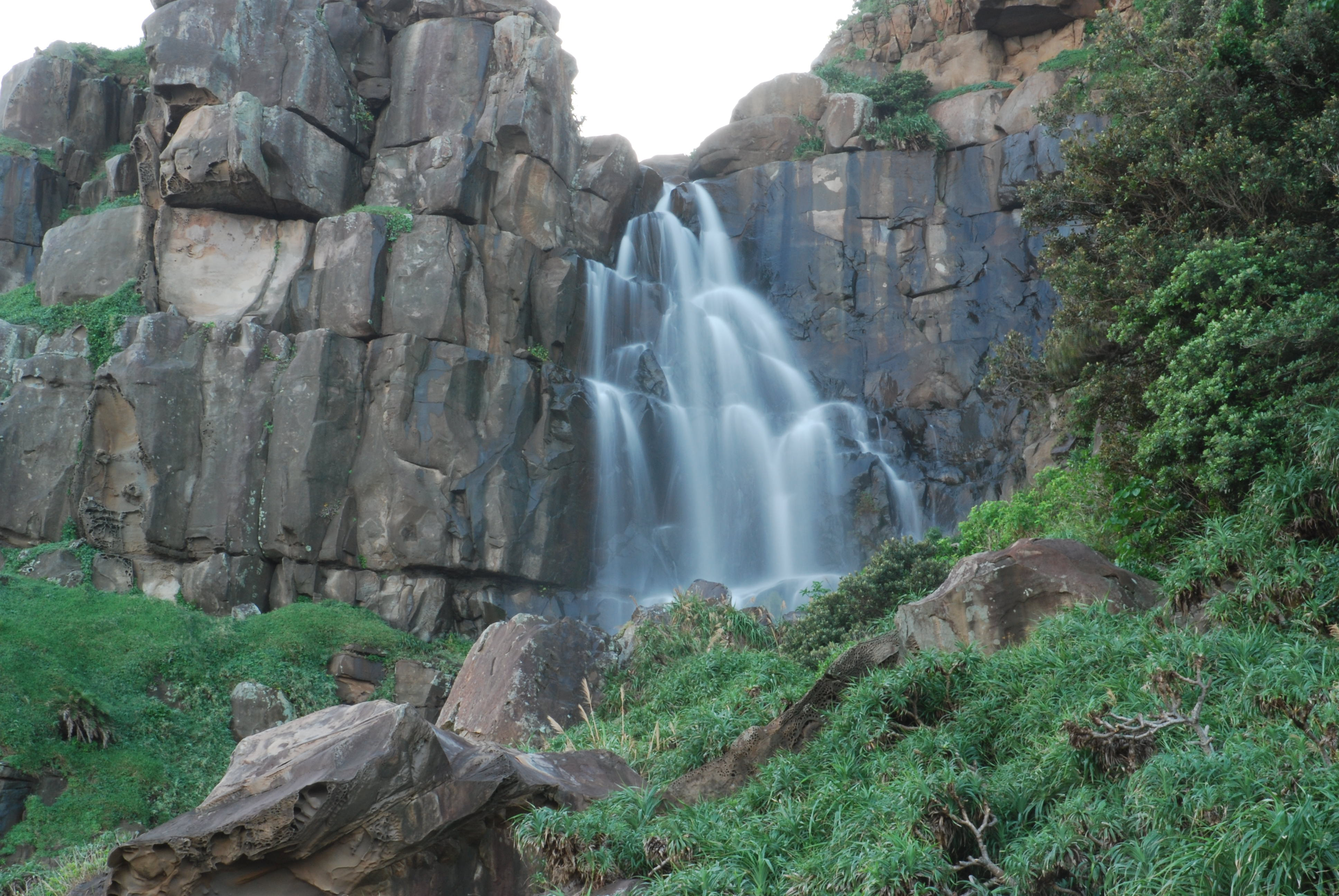 Jialeshui is a waterfall at Manzhou, South Taiwan.Literally, the name Jialeshui means a waterfall cascading over a cliff into the sea.中文（中国大陆）: 佳乐水是南台湾满州一道瀑布。「佳乐水」意指瀑布流过断崖而入海。